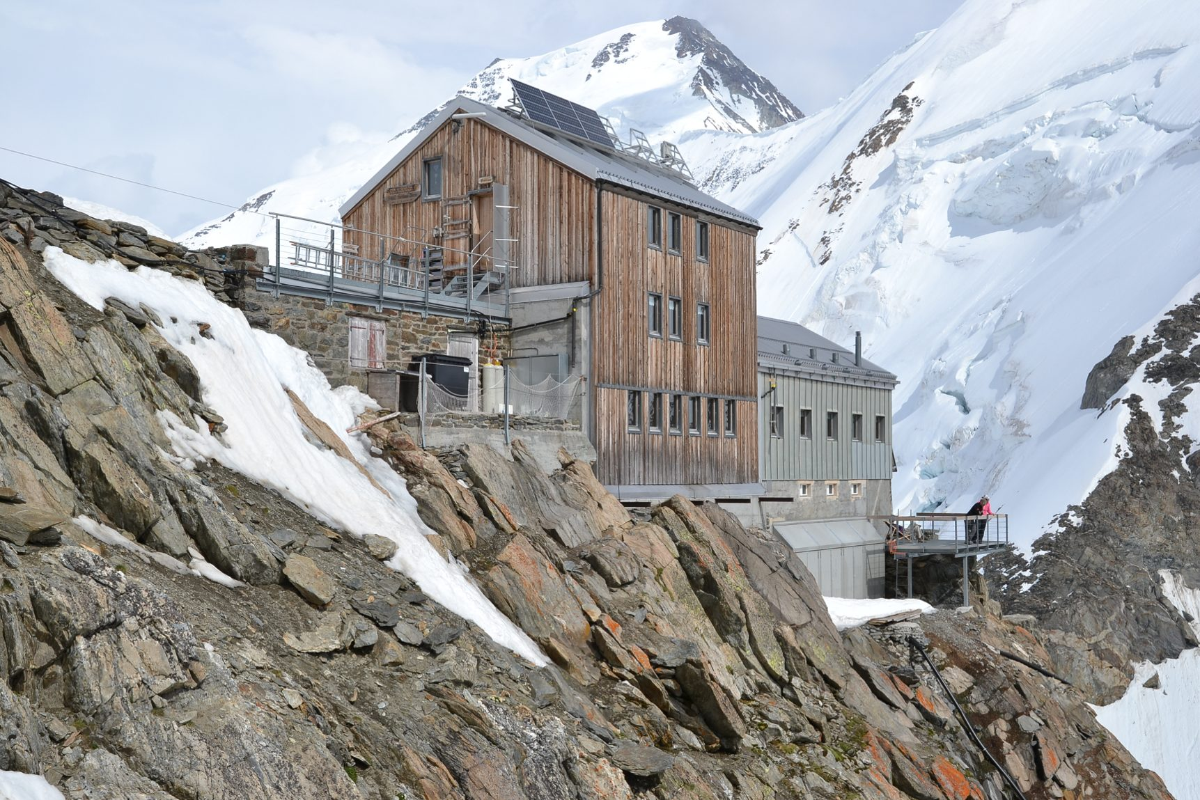 Hollandia hut, 3240m, in front of Aletschhorn (view from west)